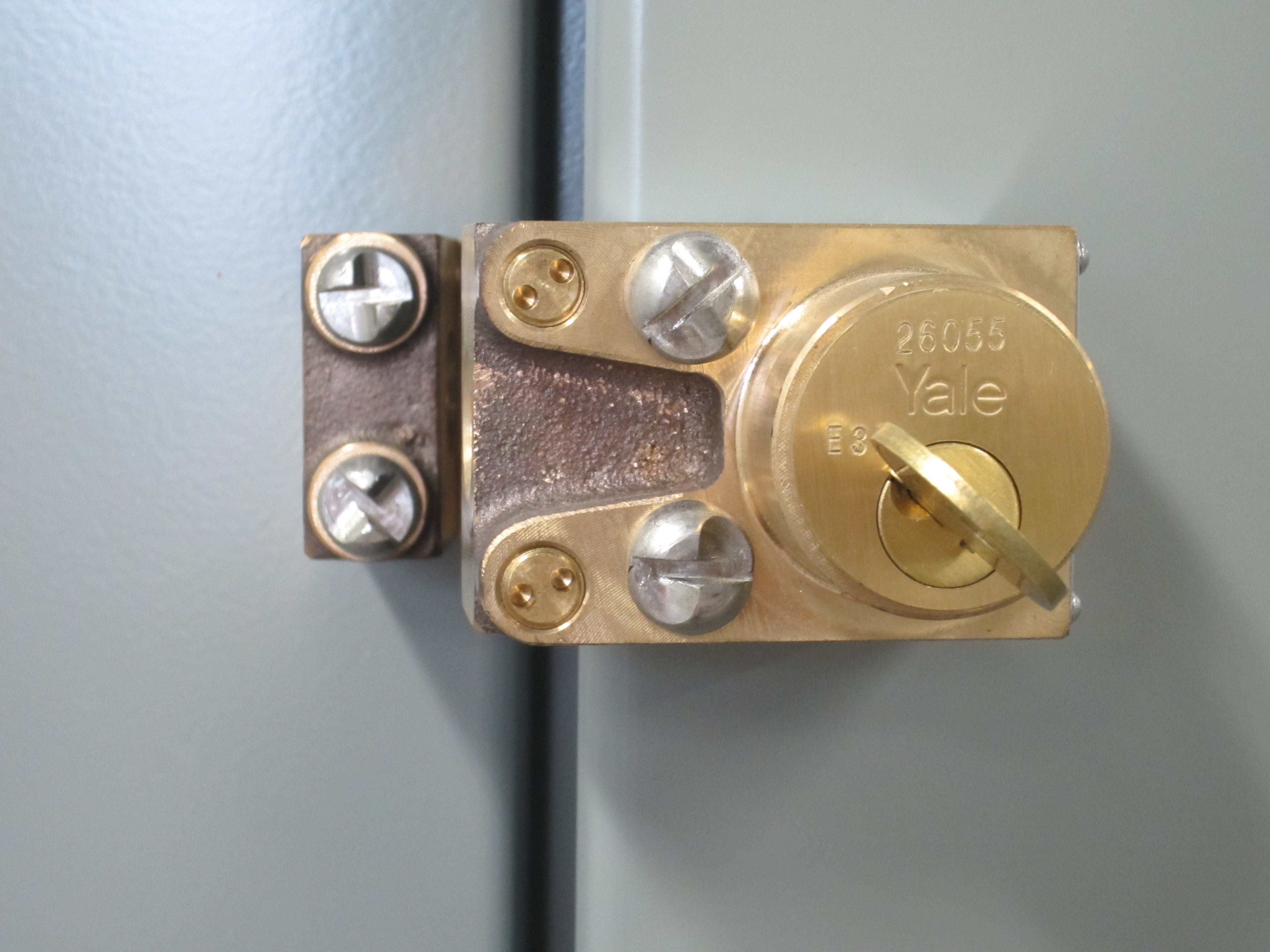 This is a trapped key interlock on the door of an electrical switchgear cabinet. To open the door the key must be inserted and turned to withdraw a bolt that holds the door closed. With the bolt withdrawn, the key is held in the lock. The upstream switching device is held open by another interlock using the same key; since the key can only be in one of the two locks, it prevents accidentally closing the upstream switch while the cabinet is open for maintenance. The interlock is attached to the door with one-way screws to discourage casual removal of the lock, which would defeat the system.